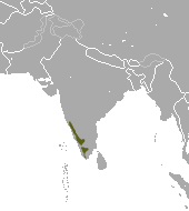 Jerdon's Palm Civet (Paradoxurus jerdoni) range with national borders